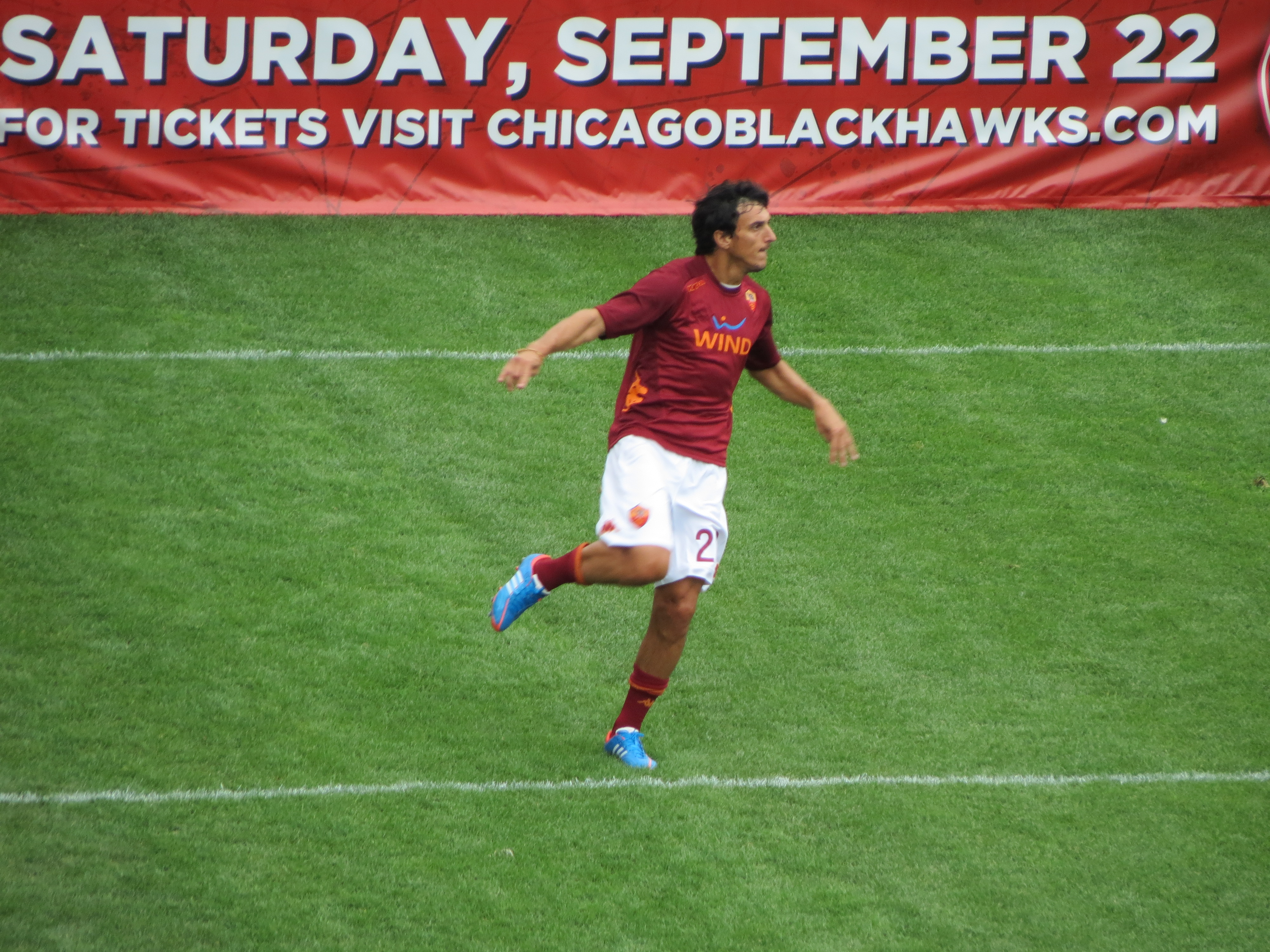 Nicolás Burdisso in Chicago, July 2012.